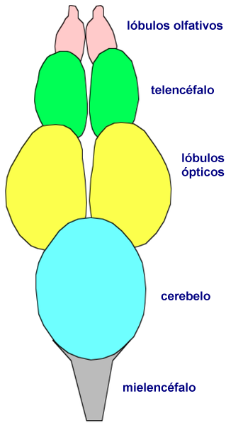 Schematic dorsal view of the brain of a trout (Oncorhynchus mykiss) with key features labelled.